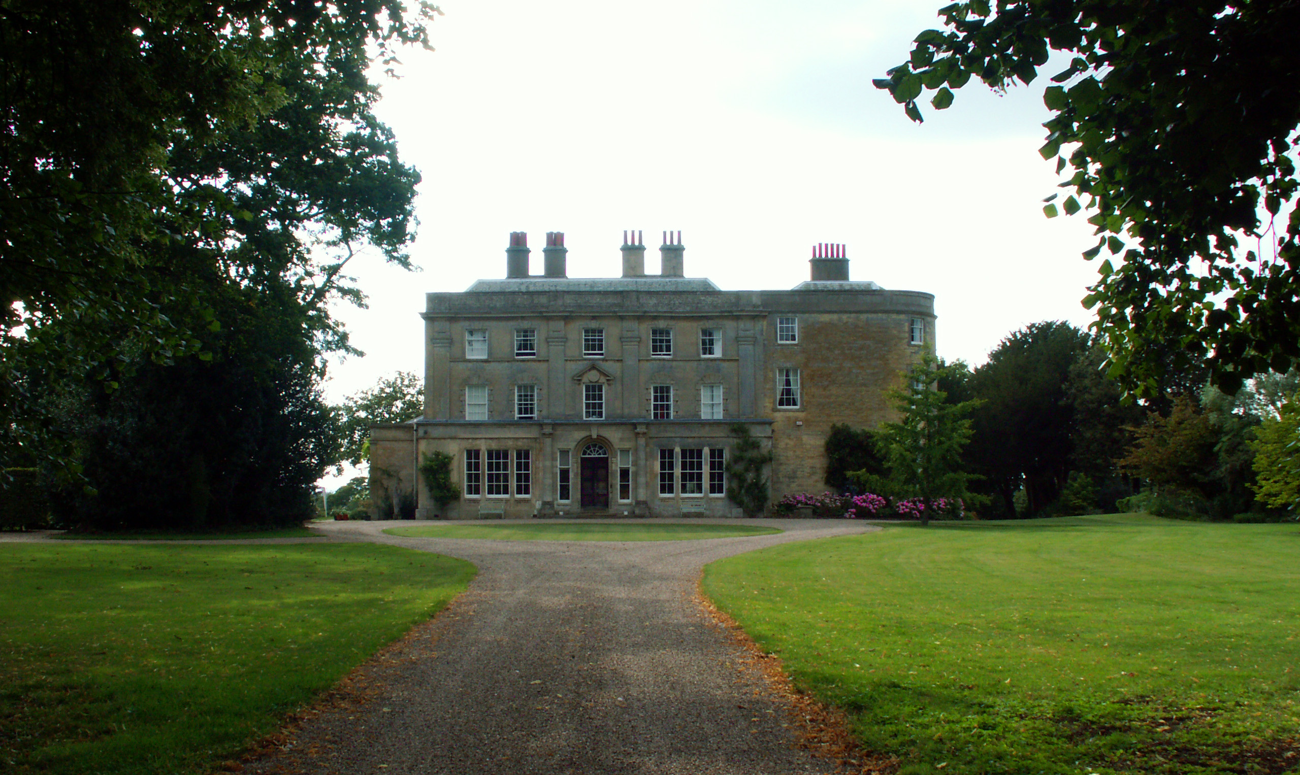 Fulbeck Hall, Fulbeck, in the South Kesteven district of Lincolnshire, England.